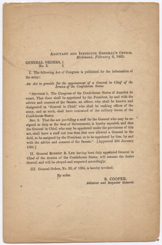 photo of CSA General order #3 on 6 Feb. 1865